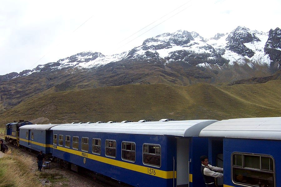 The Puno - Cusco train near the top of it's journey before the run down in the Sacred Valley and Cusco.